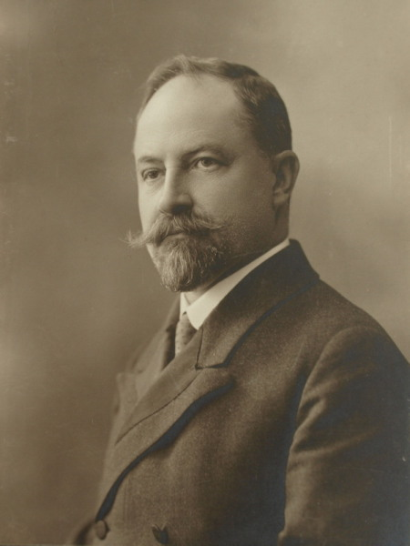 Vassil Nikolov Zlatarski (1866-1935)